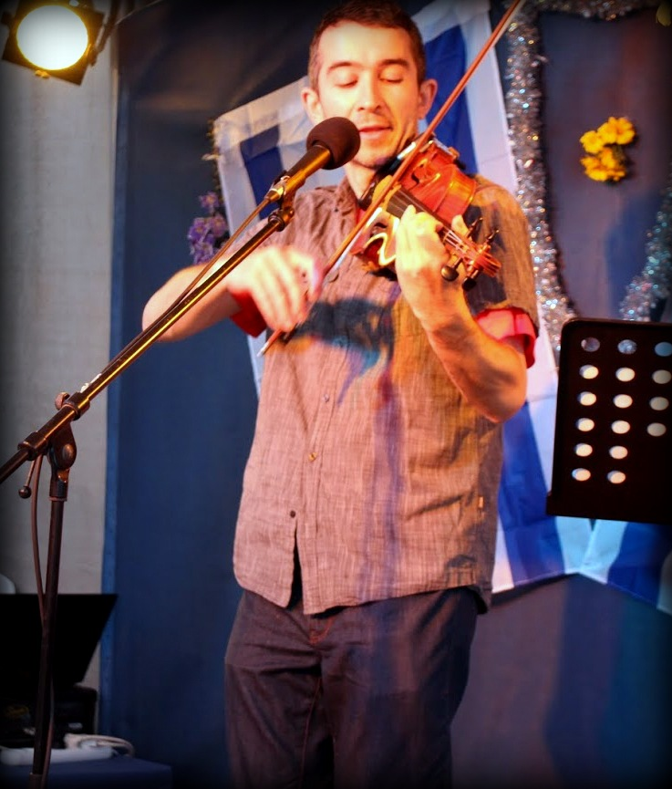 Daniel David is a Canadian Violinist, Pop Rock Worship musician, and Songwriter. He is signed to the independent record label DDMI (Dan David Music Inc) which he co-owns with his wife and singer, Melissa David.